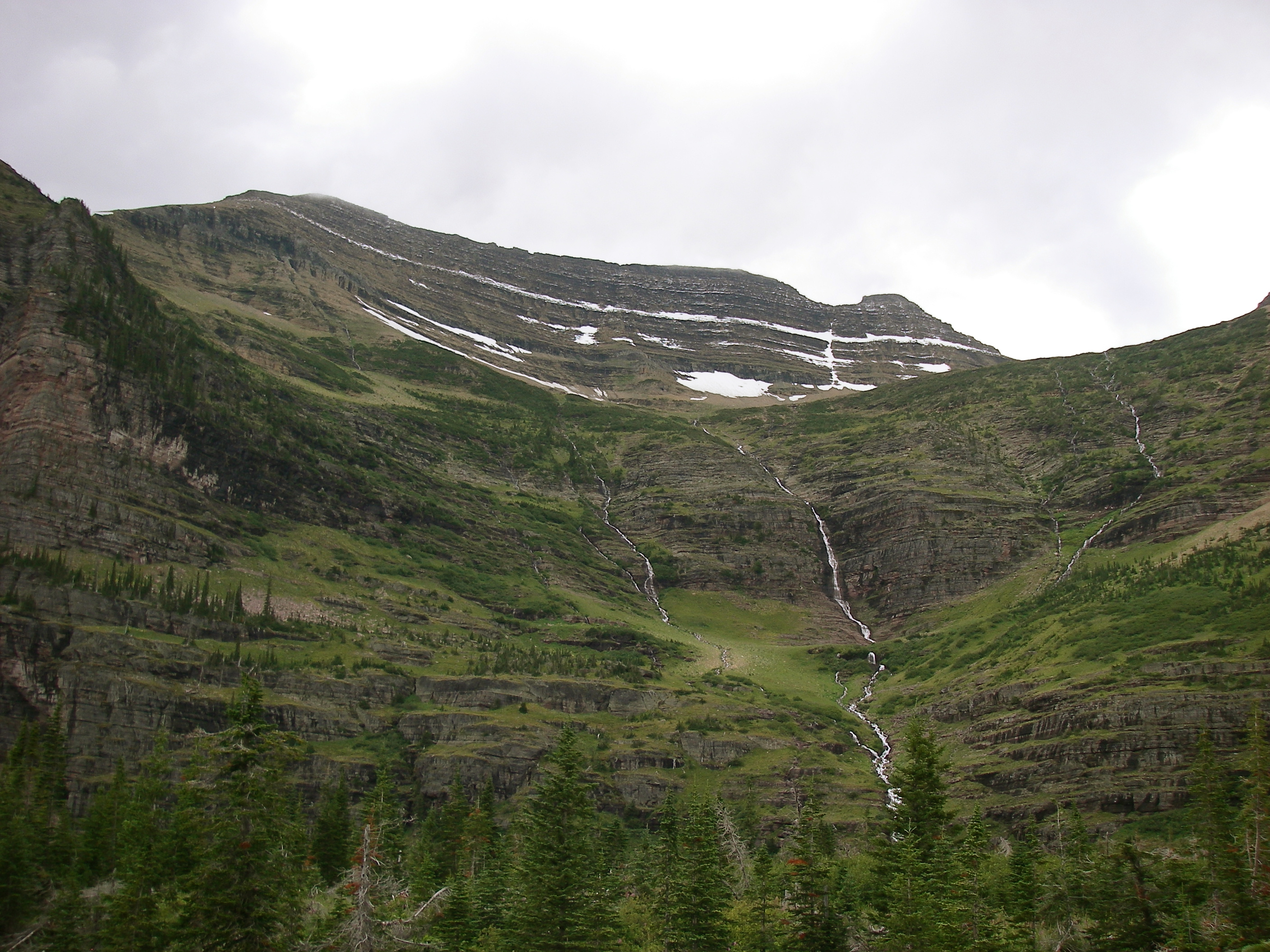 Mount Pinchot towering above Beaver Woman Lake in Glacier National Park, Flathead County, Montana. Named for Gifford Pinchot, first U.S. Forester, and Chief of Forest Service, which he organized.